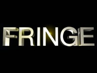 Logo from the television program Fringe.